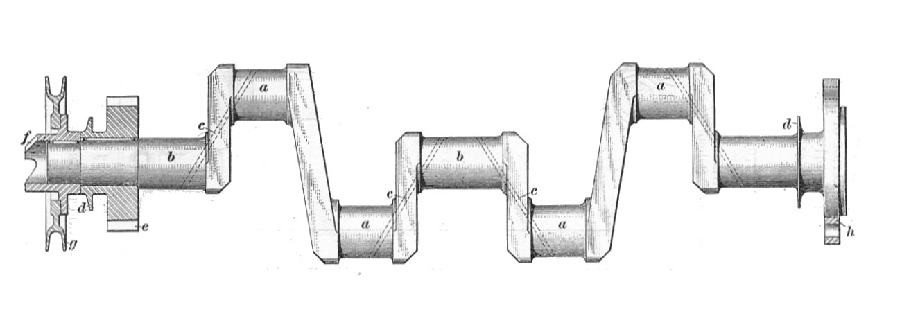 Crankshaft (Army Service Corps Training, Mechanical Transport, 1911).jpgFig. 71